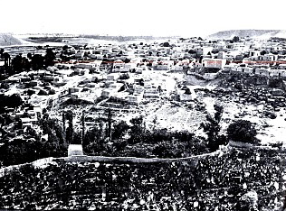 View of the City Lahrud